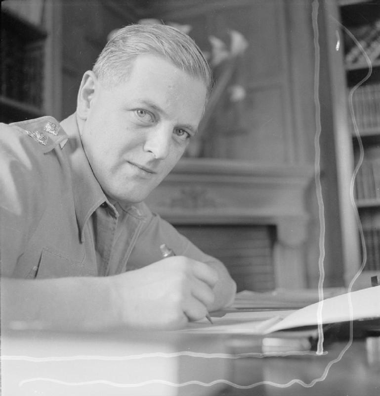 Cecil Beaton Photographs- Political and Military Personalities Military Personalities: Head and shoulders portrait of Captain Randolph Churchill, as an Army Intelligence Officer in Cairo at his desk.